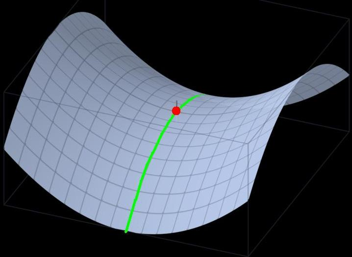 Scheme of a mountain pass.